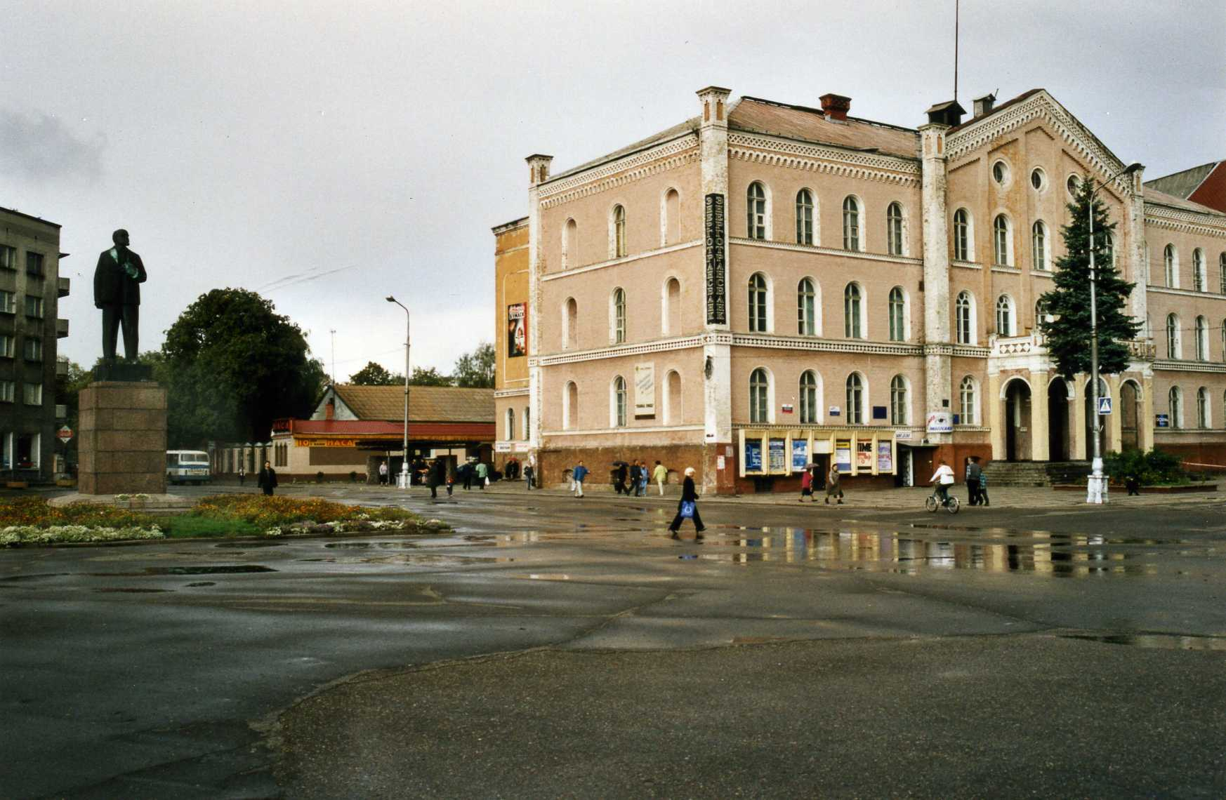 Central square in Sovetsk, Kaliningrad Oblast, Russia.